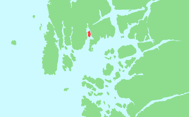 Locator map of Borgøy, Rogaland, Norway